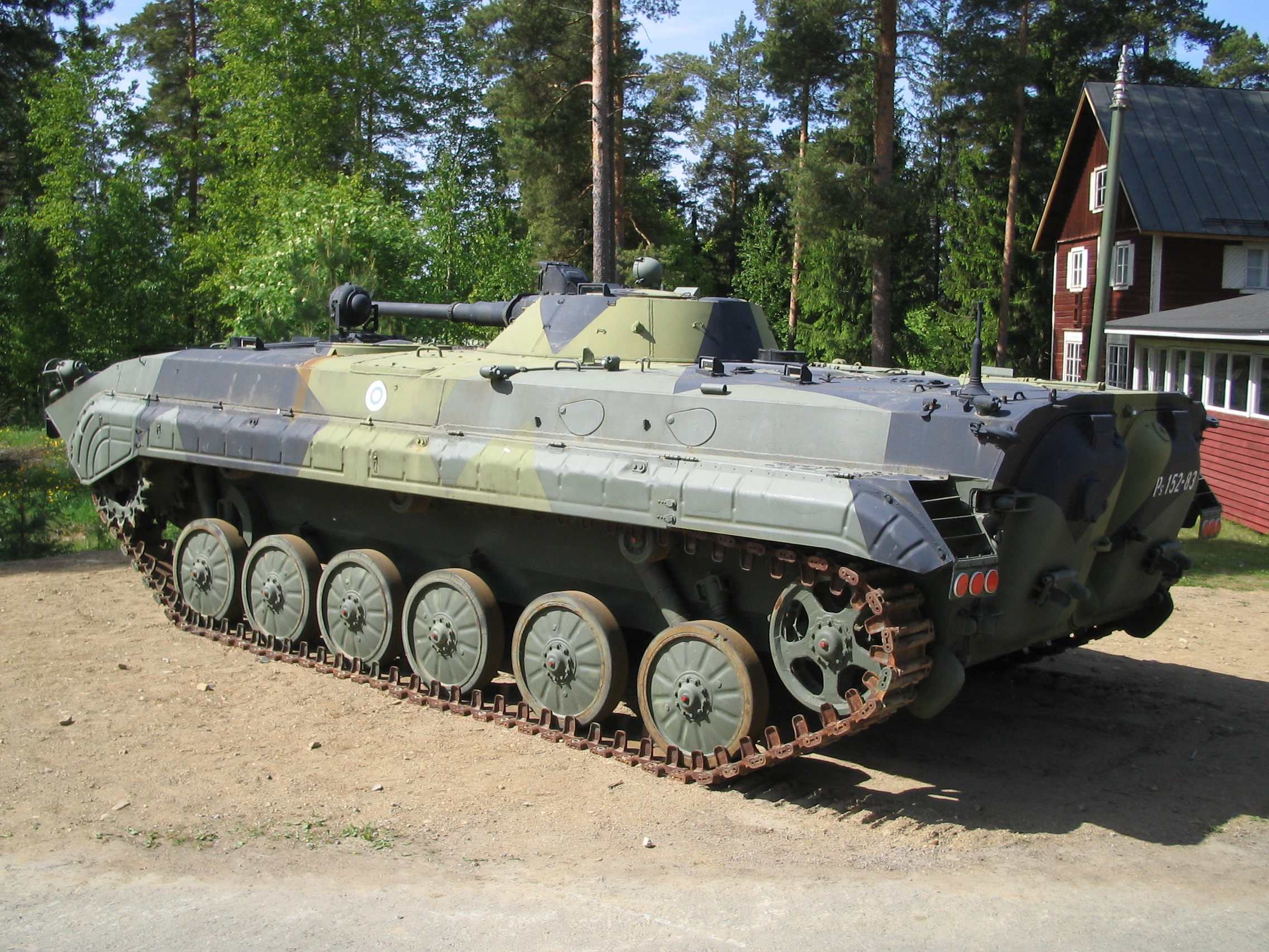 Tracked infantry fighting vehicle BMP-1K, command variant. Displayed in Parola tank museum